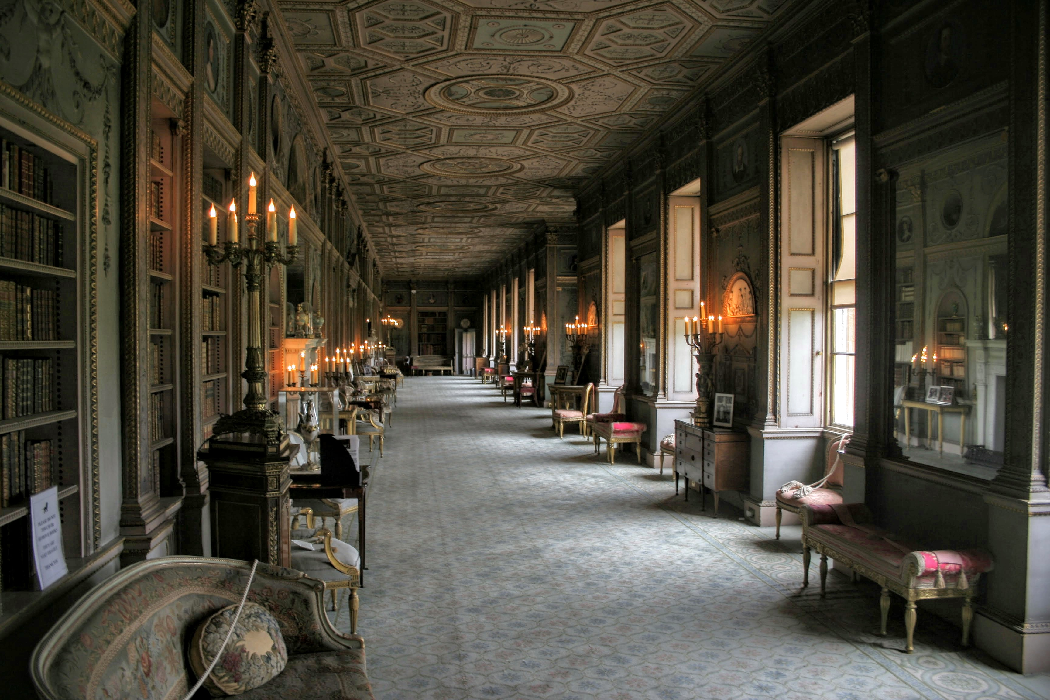 Long Gallery, Syon House 2012